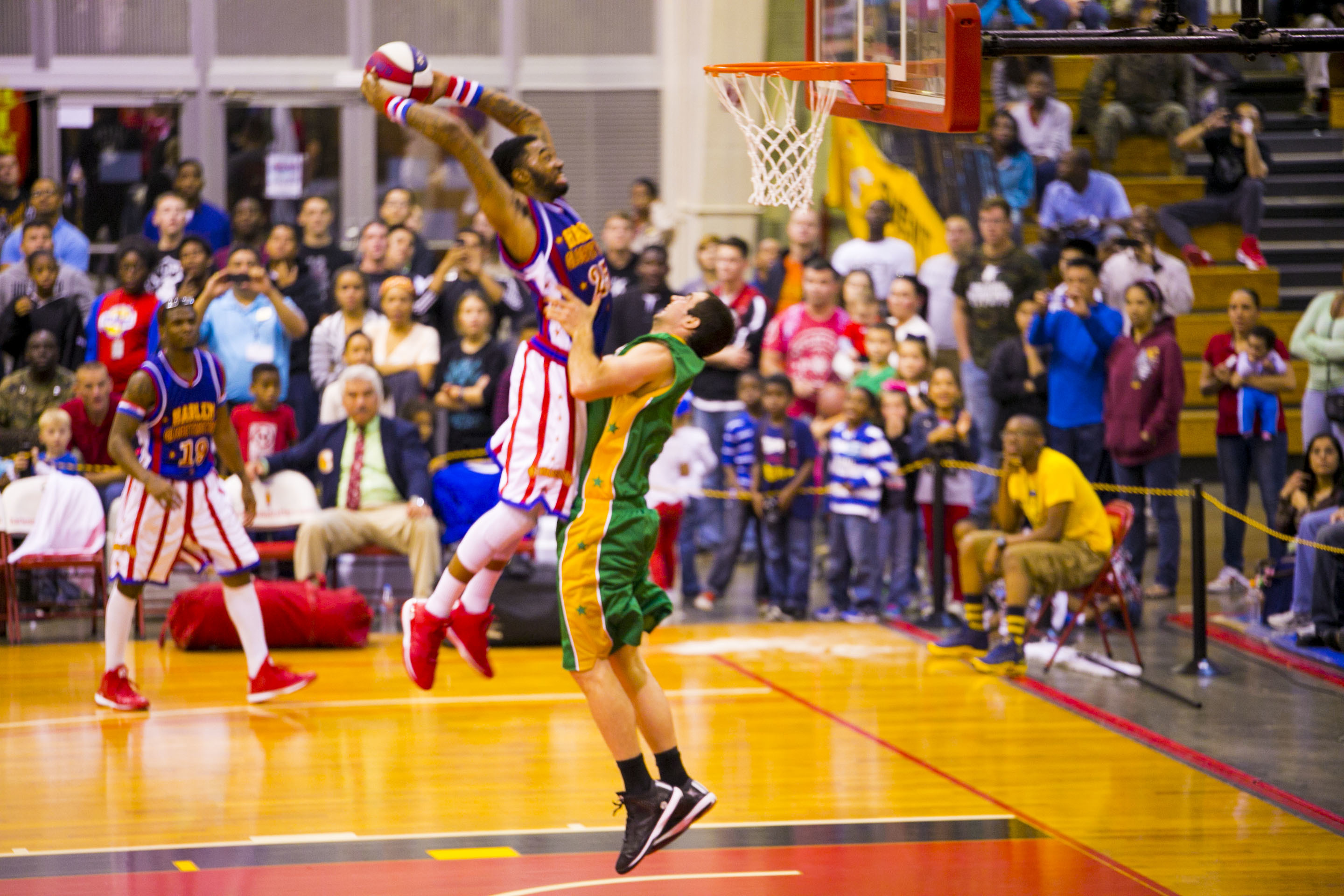 Harlem Globetrotters forward, Tydran ‘Crash’ Beaty, throws down the fanatic game winning dunk over a Washington Generals defender Dec. 9 at The Foster Field House on Camp Foster. The Harlem Globetrotters displayed their basketball artistry to service members and their families. The athletic basketball display was an opportunity for the Harlem Globetrotters to give a little taste of home to the service members serving overseas. The event was a part of the Harlem Globetrotters 13th military tour, in which the team travels overseas to U.S. military installations throughout Japan. The game was presented by Navy Entertainment, Leatherneck Tour and Marine Corps Community Services.